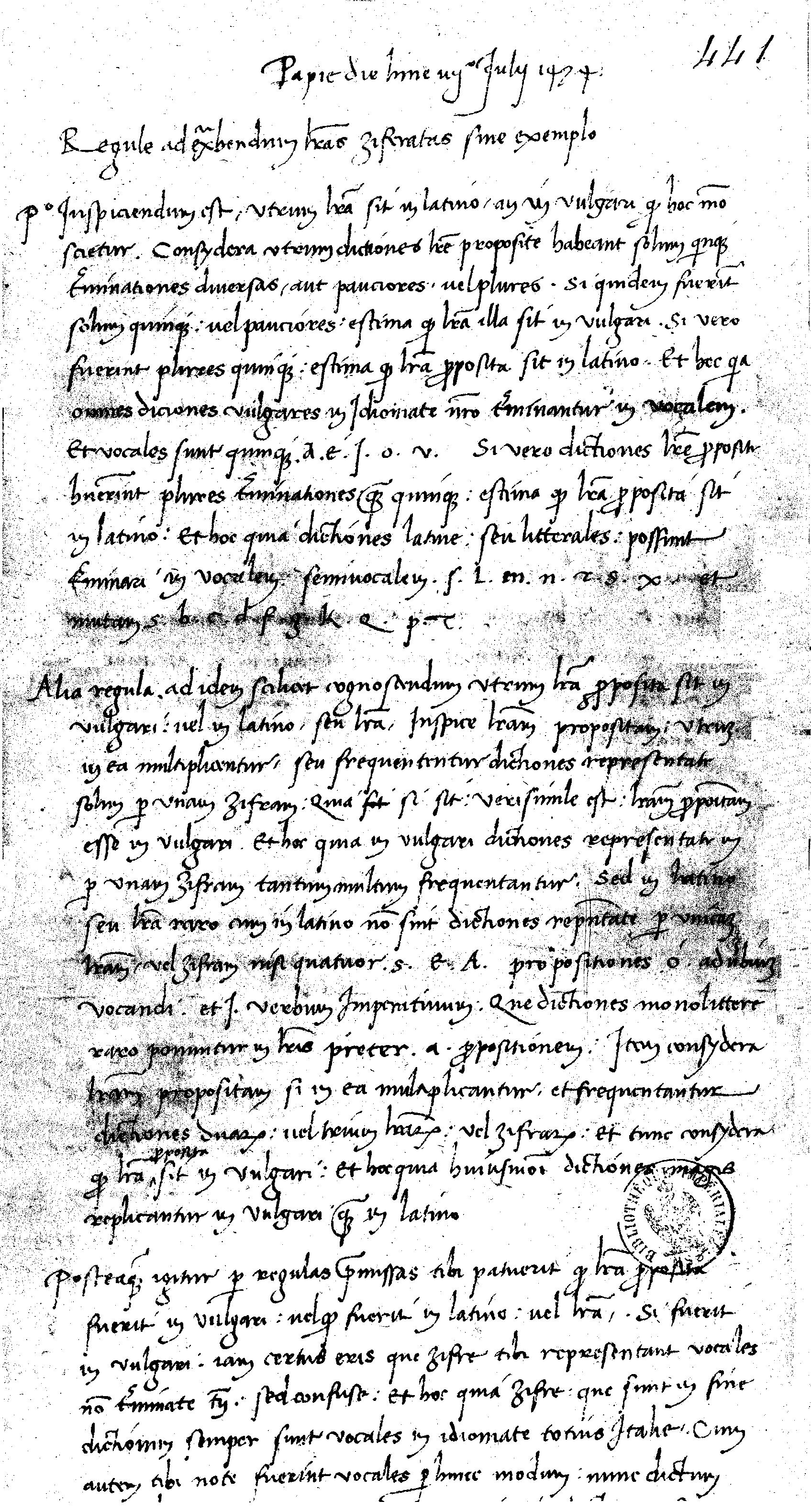 Manuscript of Cicco Simonetta's Decrypting Rules